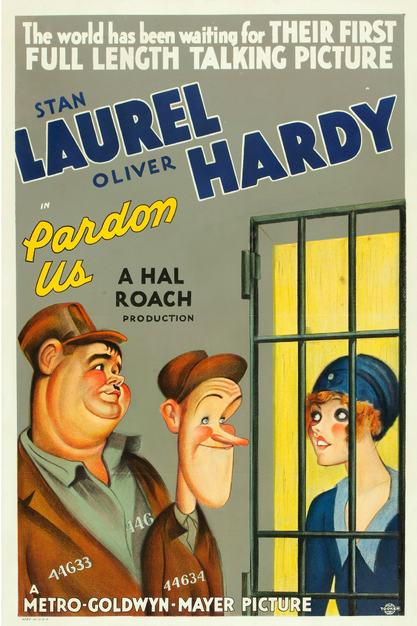 Poster for the 1931 film Parson Us.